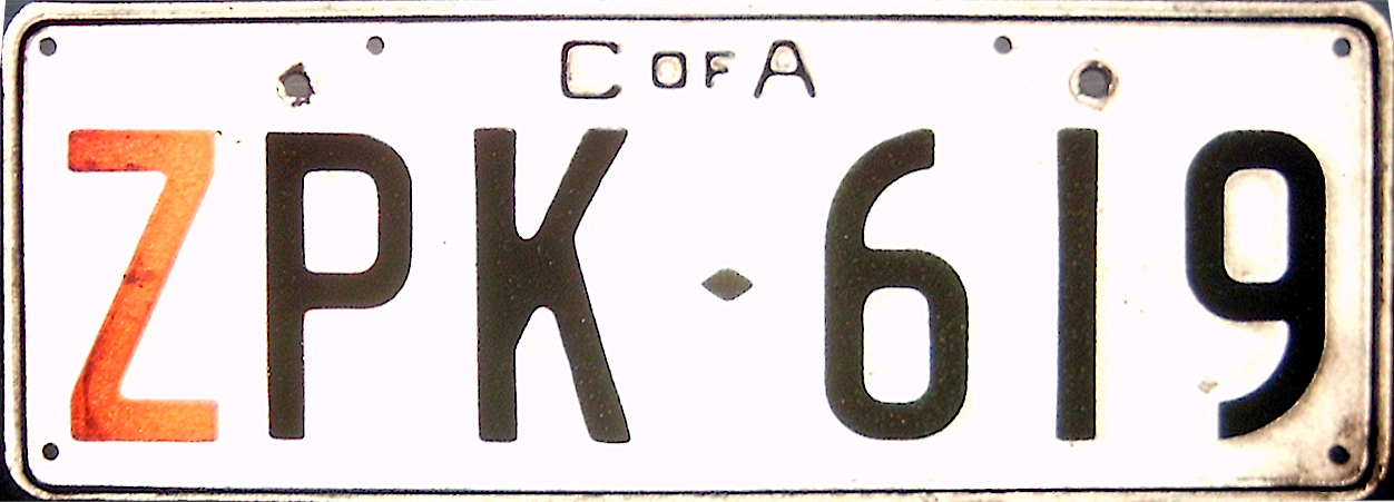 Commonwealth of Australia vehicle license plate.